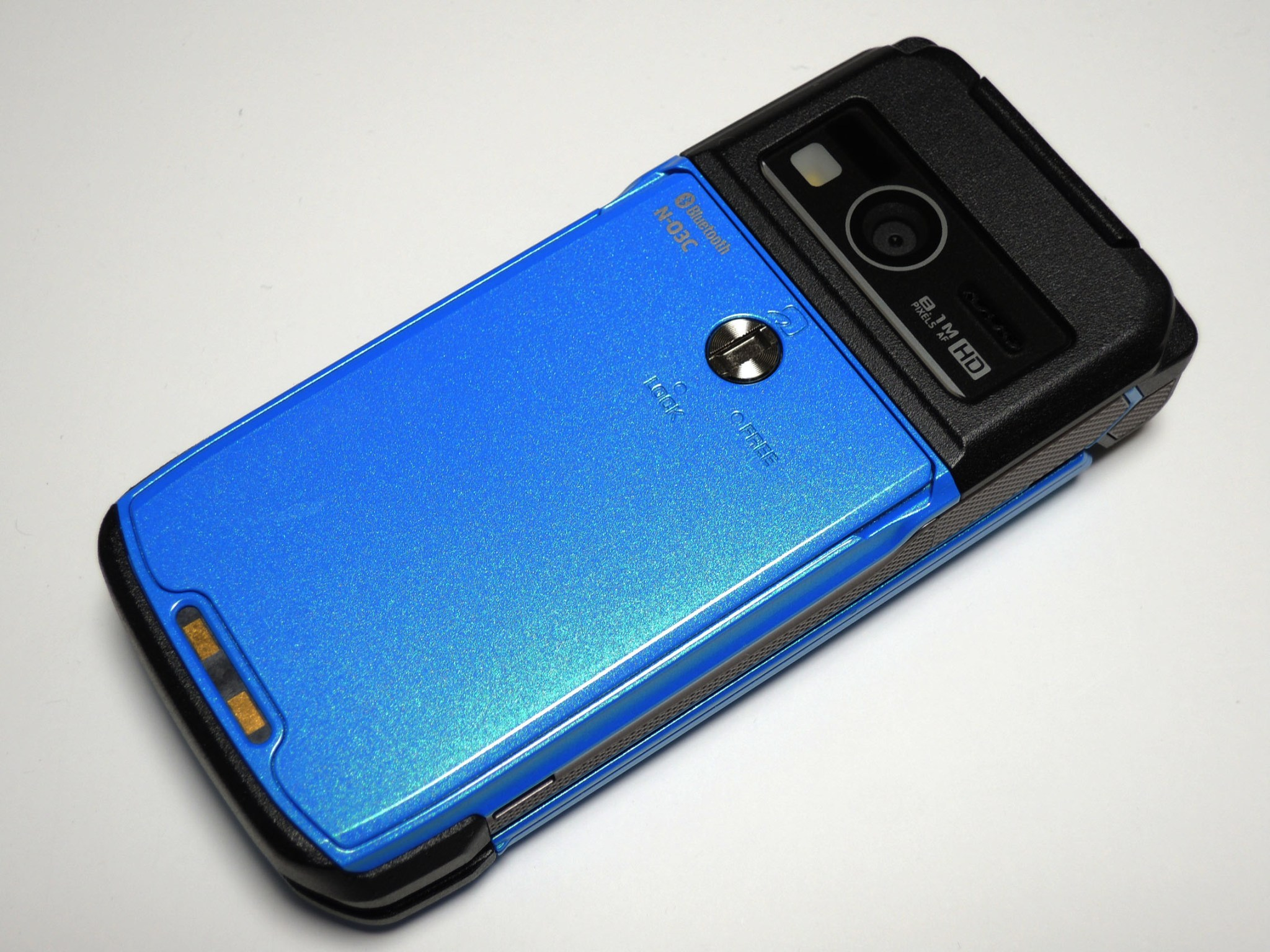 NTT docomo's featured mobile phone named "N-03D" (BLUE)